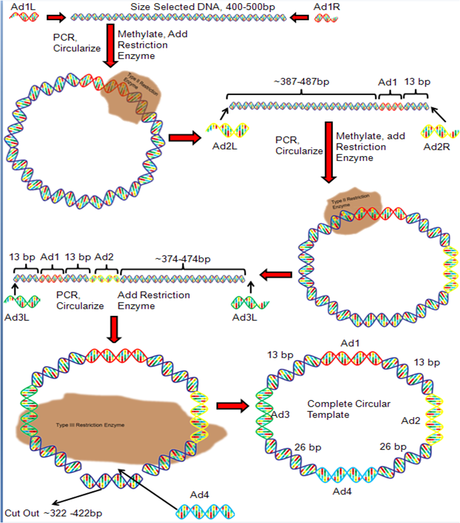 The Adapter sequences AD1L and AD1R are ligated to the size selected DNA. The adapters complement each other and the DNA is circularized. A restriction enzyme is added that cleaves the DNA. AD2L and AD2R are ligated, the DNA is circularized and a restriction enzyme cleaves the DNA. AD3L and AD3R are added, the DNA is circularized, and a type III restriction enzyme is added. This cleaves out a 300 - 400bp piece of DNA and AD4 replaces it to complete the circular, adapter ligated template DNA.